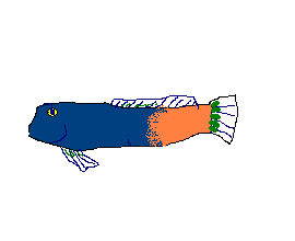 self-drawn draft of Ecsenius bicolor fish